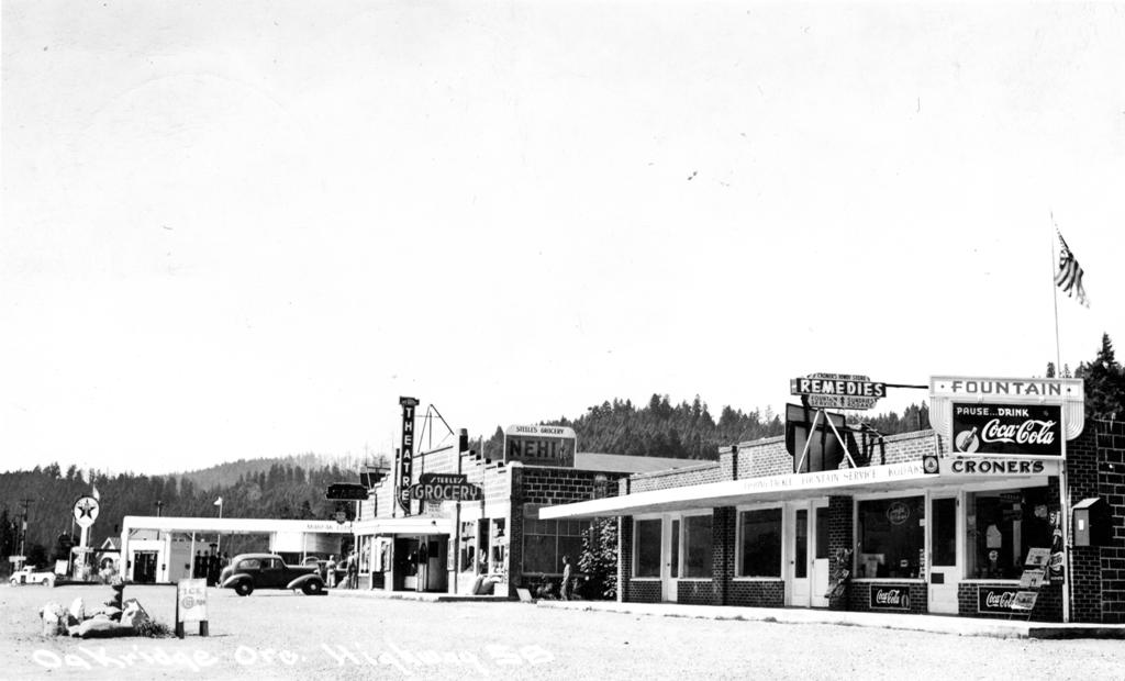 Original Collection: Gerald W. Williams Collection, 1855-2007 Item Number: WilliamsG: ES_oakridge You can find this image by searching for the item number by clicking here. Want more? You can find more digital resources online. We're happy for you to share this digital image within the spirit of The Commons; however, certain restrictions on high quality reproductions of the original physical version may apply. To read more about what “no known restrictions” means, please visit the Special Collections & Archives website, or contact staff at the OSU Special Collections & Archives Research Center for details.